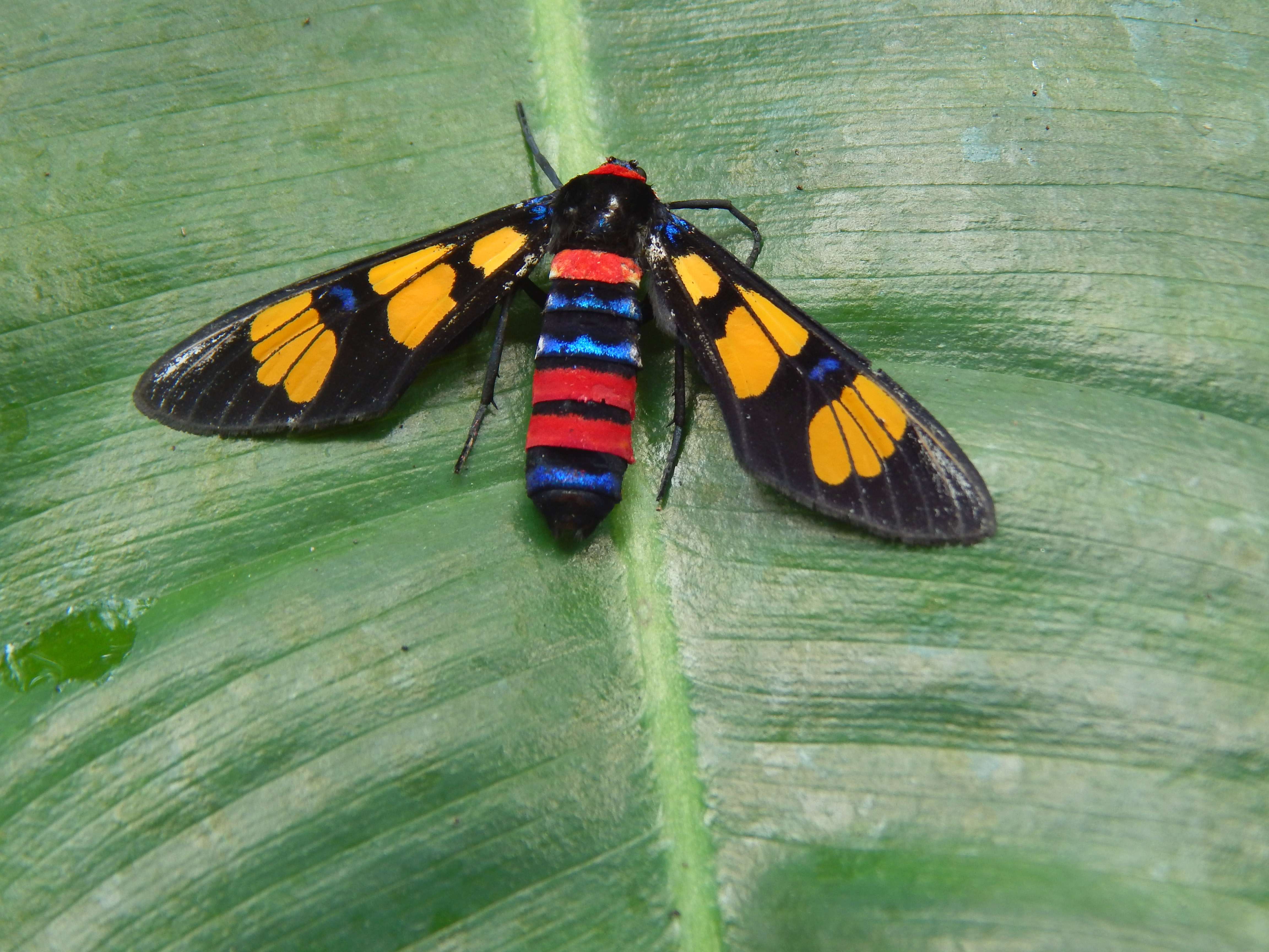 A different color species found in Kerala, India